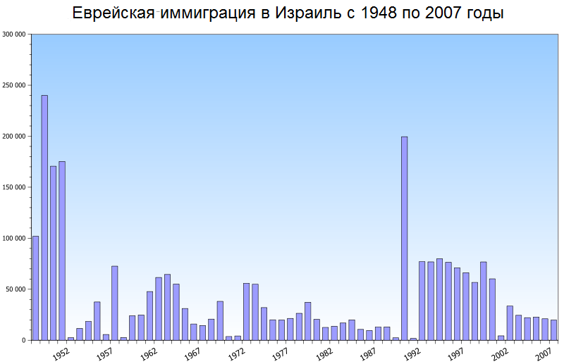 Jewish immigration to Israel from 1948 to 2007